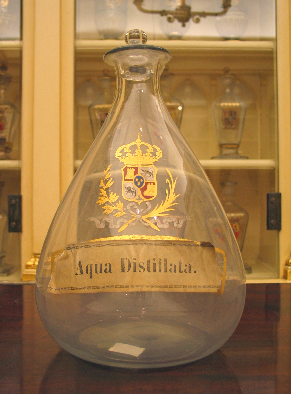 'Aqua distillata' (Distilled water) in the Real Farmacia in Madrid